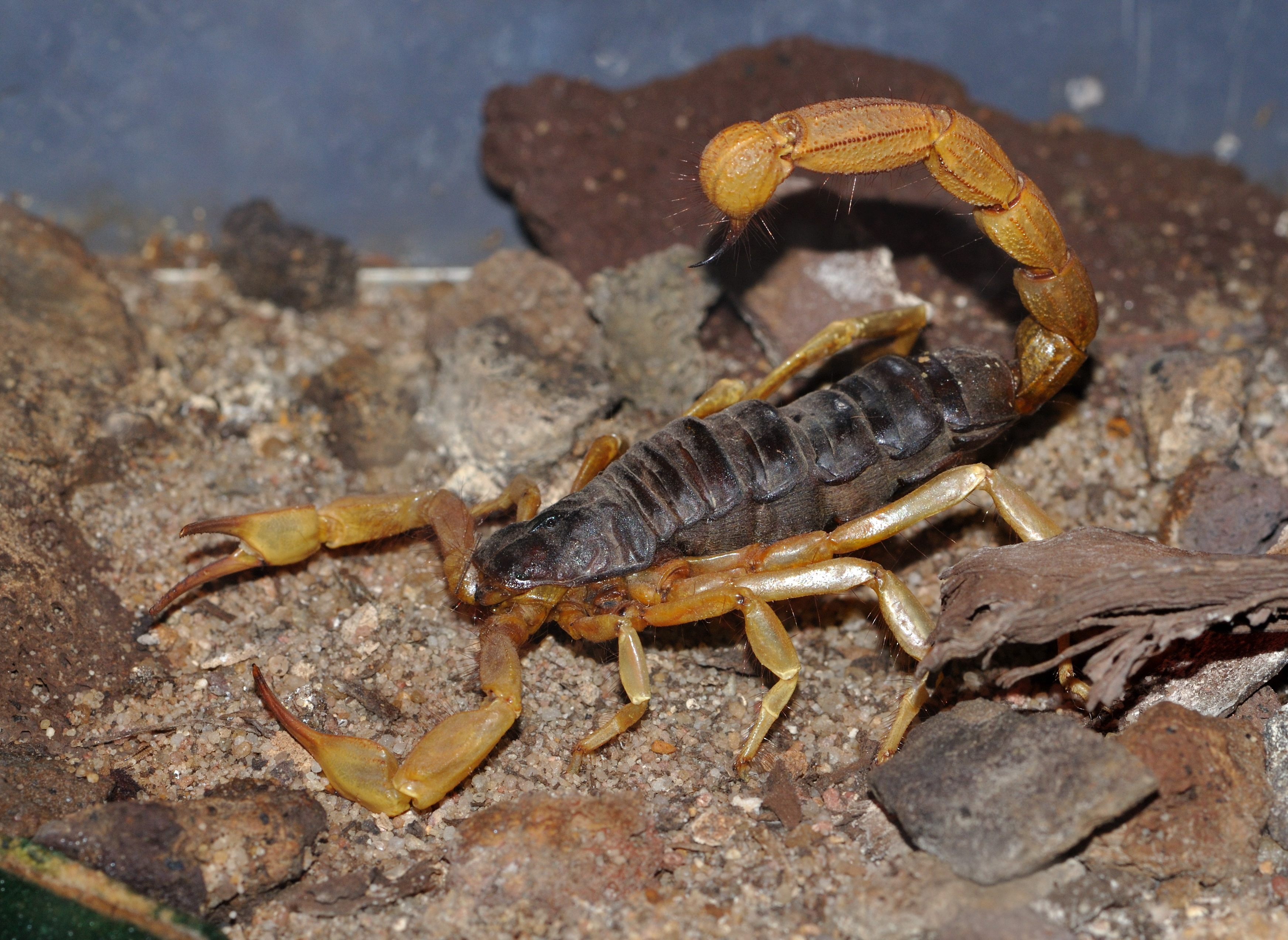 Yellow Fattail Scorpion (Androctonus australis) in the Wilhelma, Stuttgart, Germany.